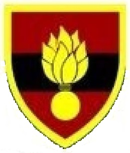 SANDF School of Engineers